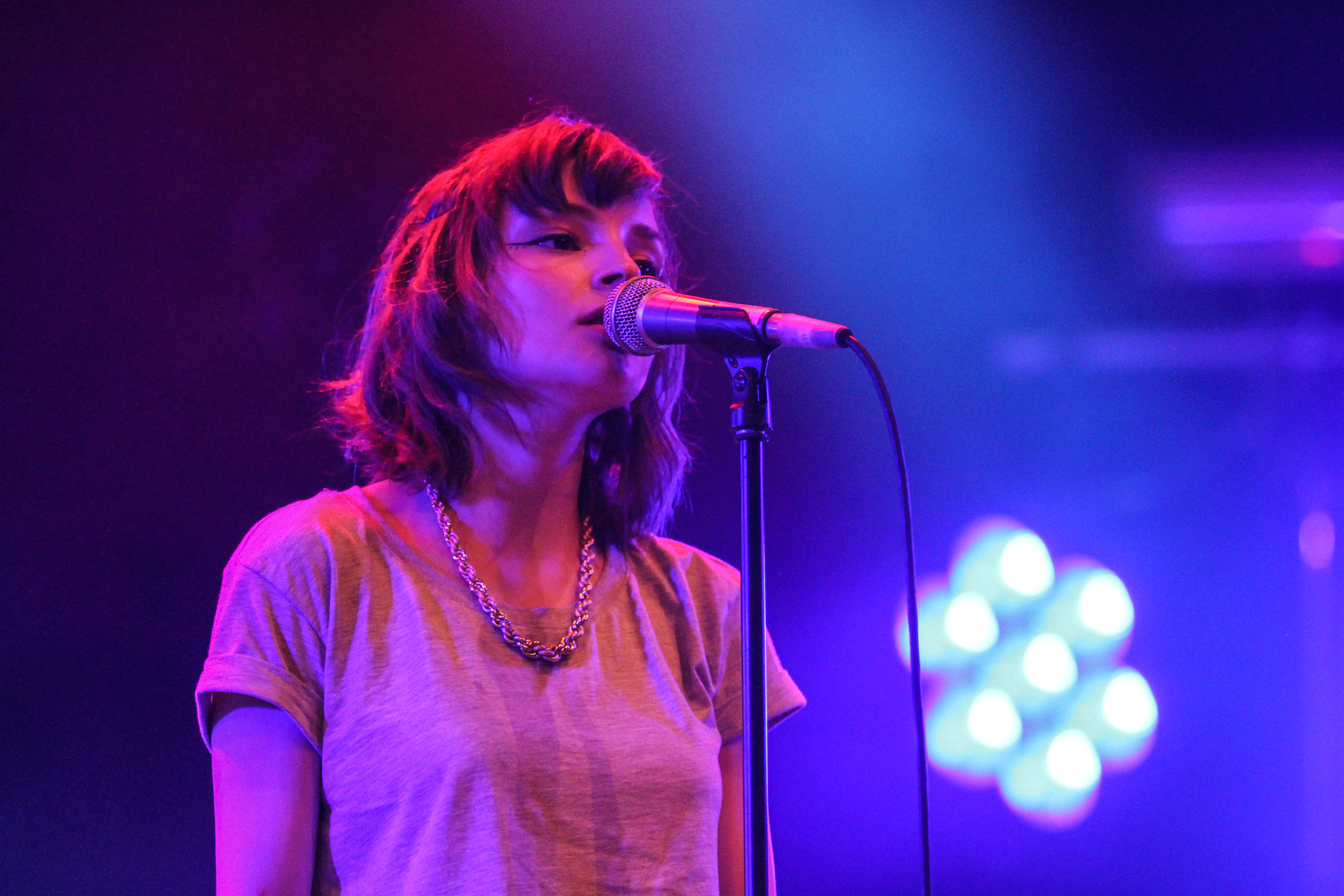 Chvrches performing at Melt! Festival 2013